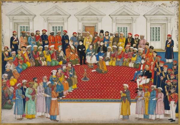 Begum Samru's Household. Commentary: This painting was made for Begum Samru, an Indian who employed and entertained large numbers of Westerners, converted to Catholicism, and had two European husbands. She was powerful and wealthy, and also, it is said, ruthless and cruel. The painting, which includes the name of each individual portrayed, incorporates both Indian and European elements.